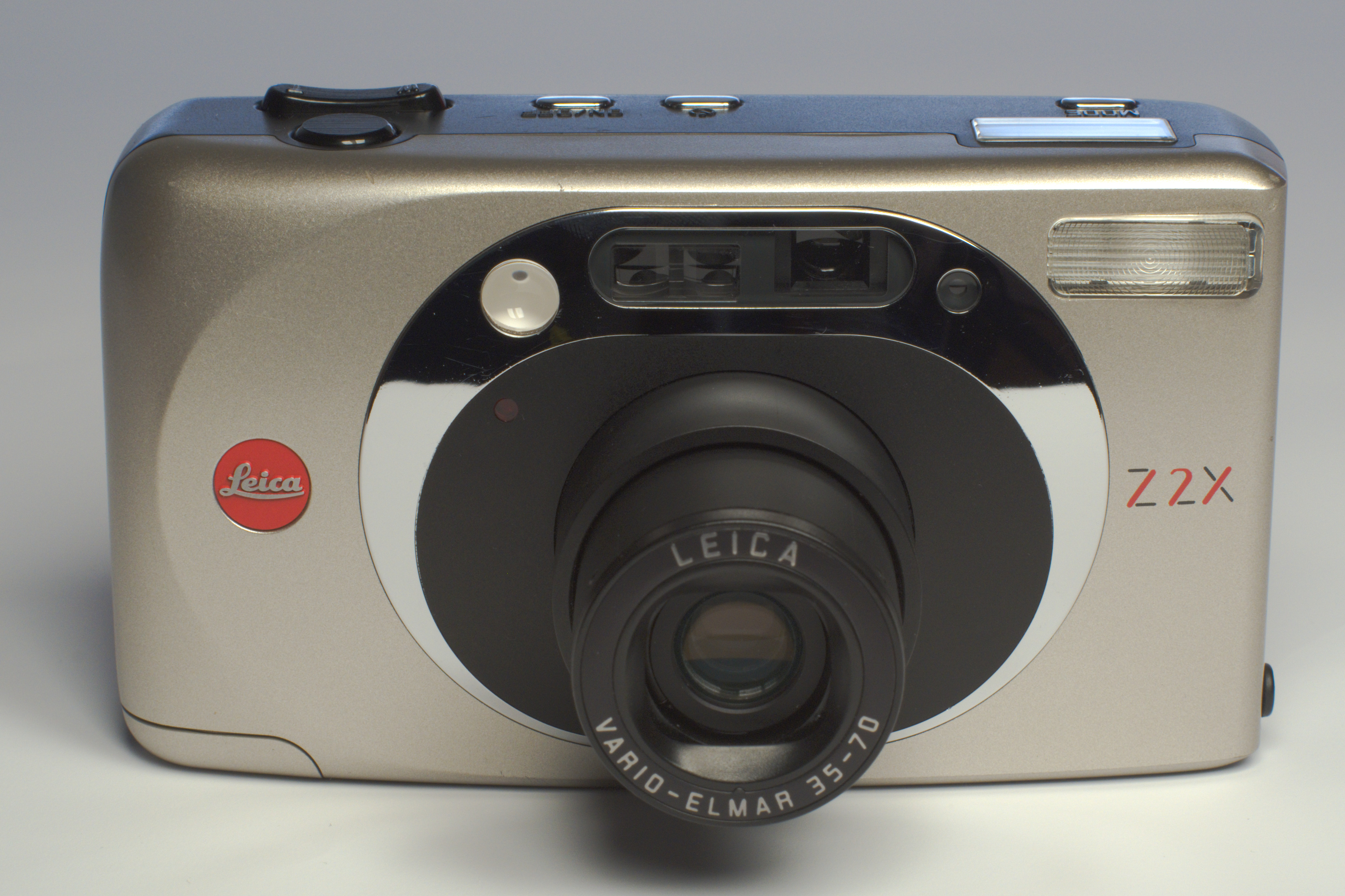 A Leica Z2X compact camera, front view, maximum zoom